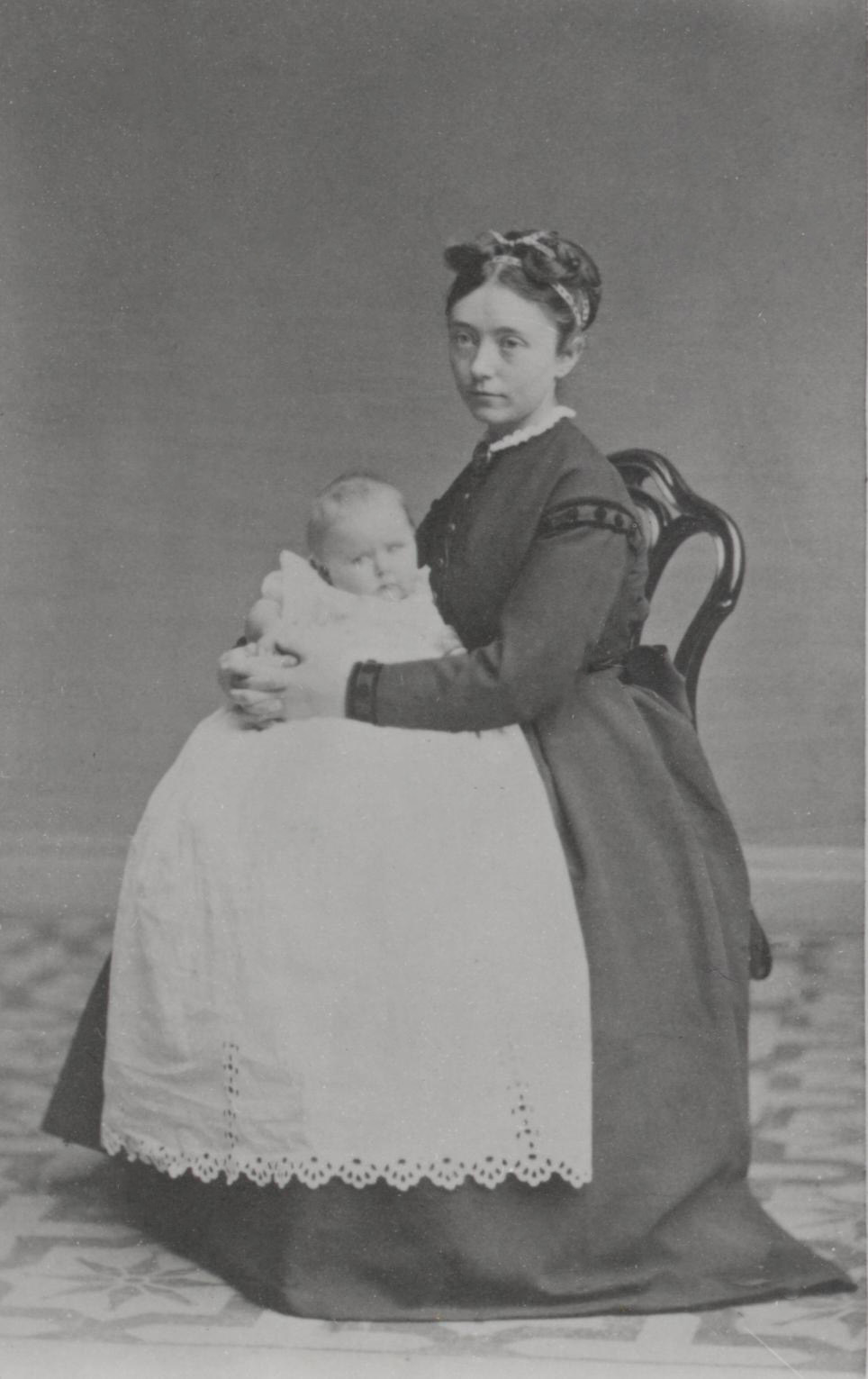 Artist: unknown Date/place: 1868, Bergen/Norway Subject: Nina Grieg and her daughter Alexandra Medium: photographic positive and negative, B&W Notes: gift from Åsta Grieg Bing 1985 Persistent URL: [#//nettbiblioteket.no/grieg-samlingen/engelsk/grieg_intro_eng.html” Original belongs to the Edvard Grieg Archives at Bergen Public Library]